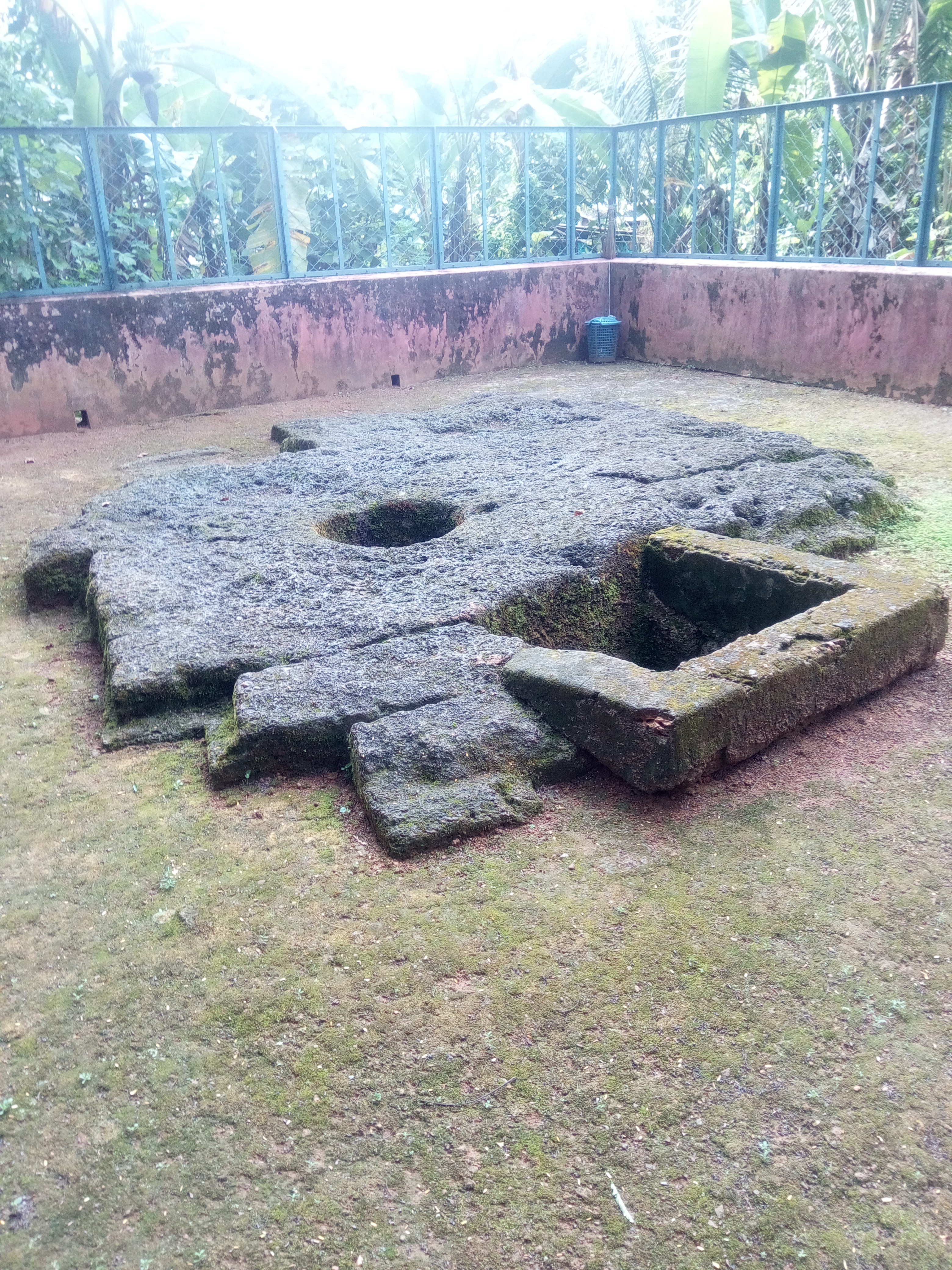 Kakkad ancient cave , national monument